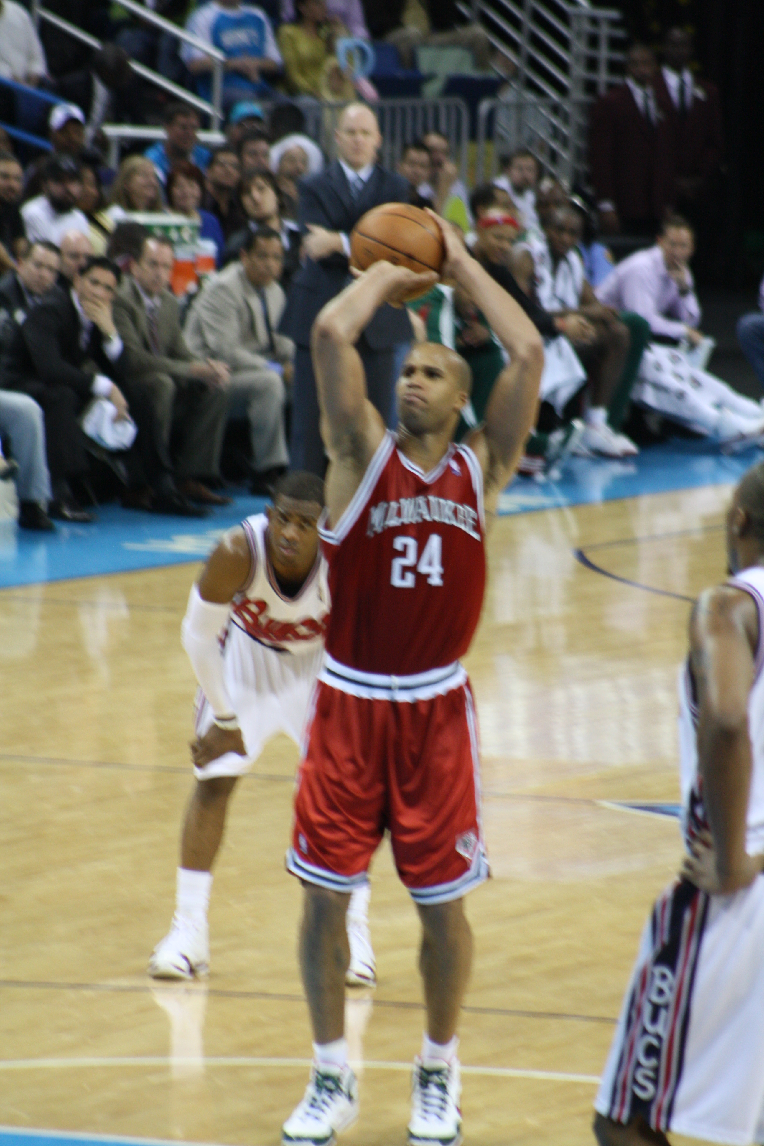 Richard Jefferson of the Milwaukee Bucks